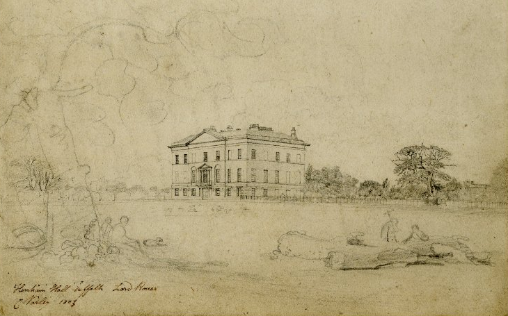 Henham Hall, Suffolk, drawn in 1801 by Cornelius Varley (1781-1873). British Museum ref: 1981,1107.2. Height: 233 millimetres; Width: 328 millimetres. Inscribed and dated: "Henham Hall Suffolk Lord Rous C. Varley 1801"